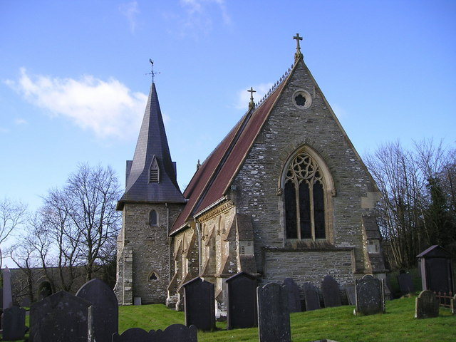 Llangynllo Church The church of St Cynllo has a broad view southwards towards the Teifi Valley and stands alongside a farm at the end of a dead-end road.